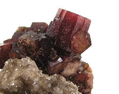 Manganpyrosmalite Locality: Broken Hill, Yancowinna County, New South Wales, Australia (Locality at ) Size: small cabinet, 6.1 x 3.7 x 1.4 cm Manganpyrosmalite This is the best specimen of its species from Australia I have seen for sale, myself. It is from the personal colleciton of Aussie collector and dealer Rob Sielecki, with whom i traded at Tucson. It is a very atrtractive, sparkling, red specimen with large and fat crystals measuring to 5 x 5 x 5 mm concentrated at one end. It actually displays better vertically but photo'd better horizontally. I have seen bigger crystals, but not on such a rich specimen, or in such quantity and beauty together. I consider it to be a significant example of the species (and they were found in the 1920s-40s, I am told)